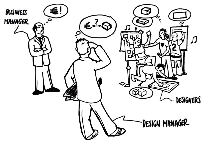 author: PARK advanced design management, title: Design management in brief